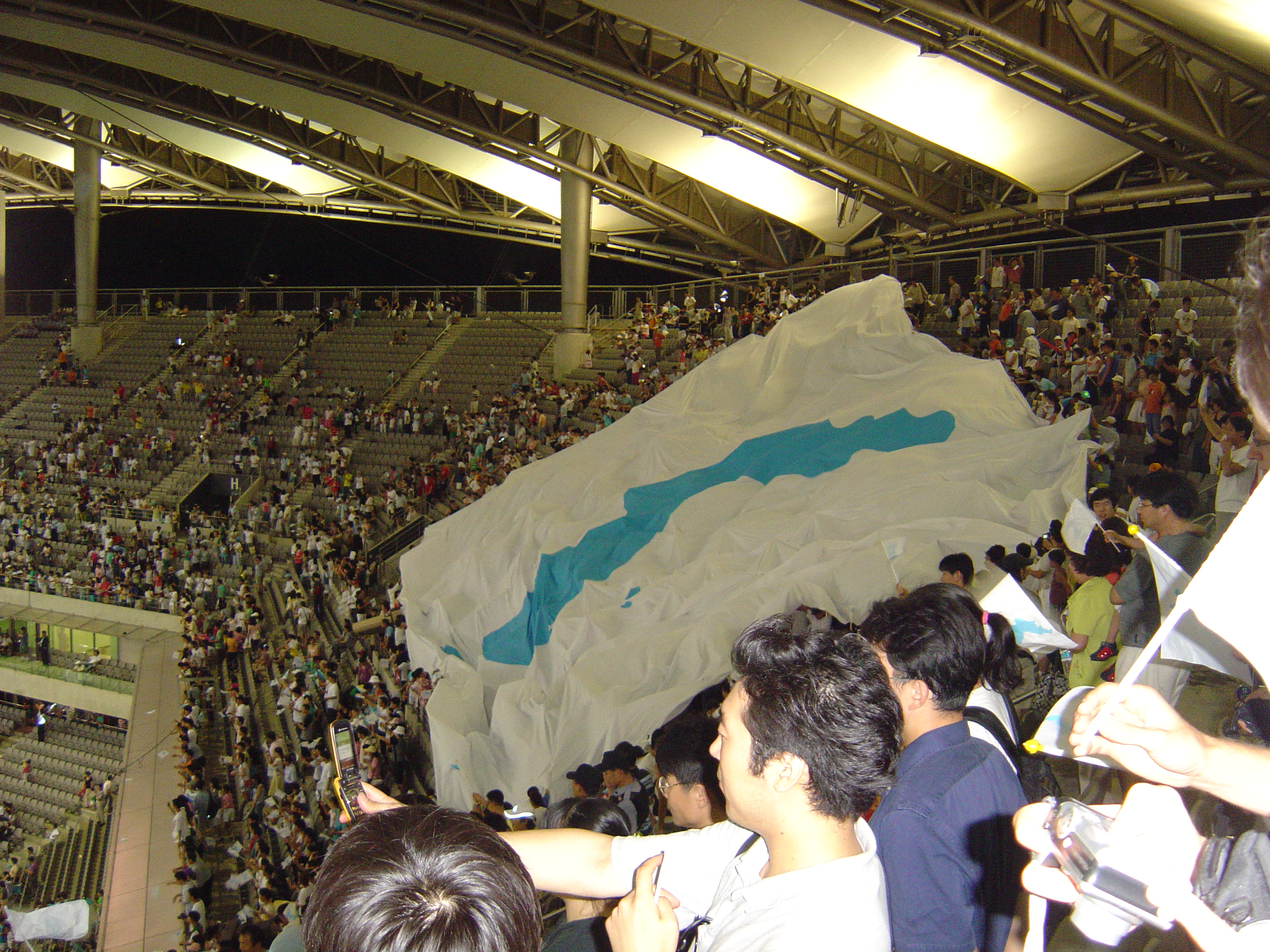 A huge Korean unification flag was passed around the Seoul World Cup Stadium during a friendly match between the two Koreas on 14 August 2005.